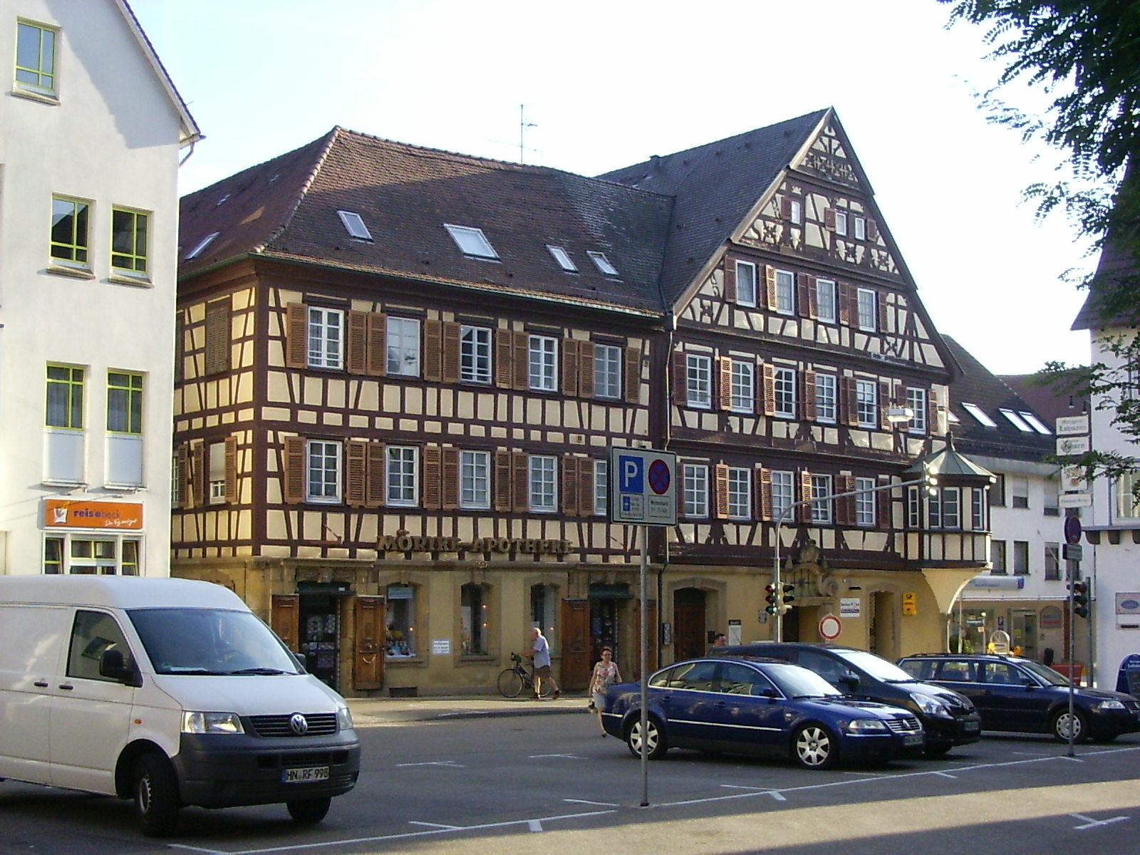 Timber-framed pharmacy in Neuenstadt am Kocher